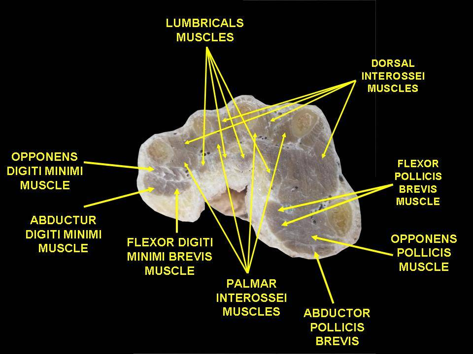 Anatomical dissections